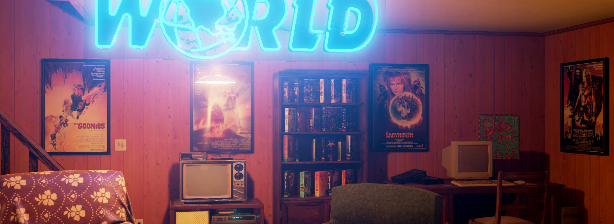 A screenshot of the Kohaku's World basement virtual set, depicting several features characteristic of the 80's and 90's: a neon sign, wooden paneling, shag carpet, a bean bag chair, some famous posters by Drew Struzan, a shelf full of classic big box PC games, an old television set and an old computer with a CRT monitor.